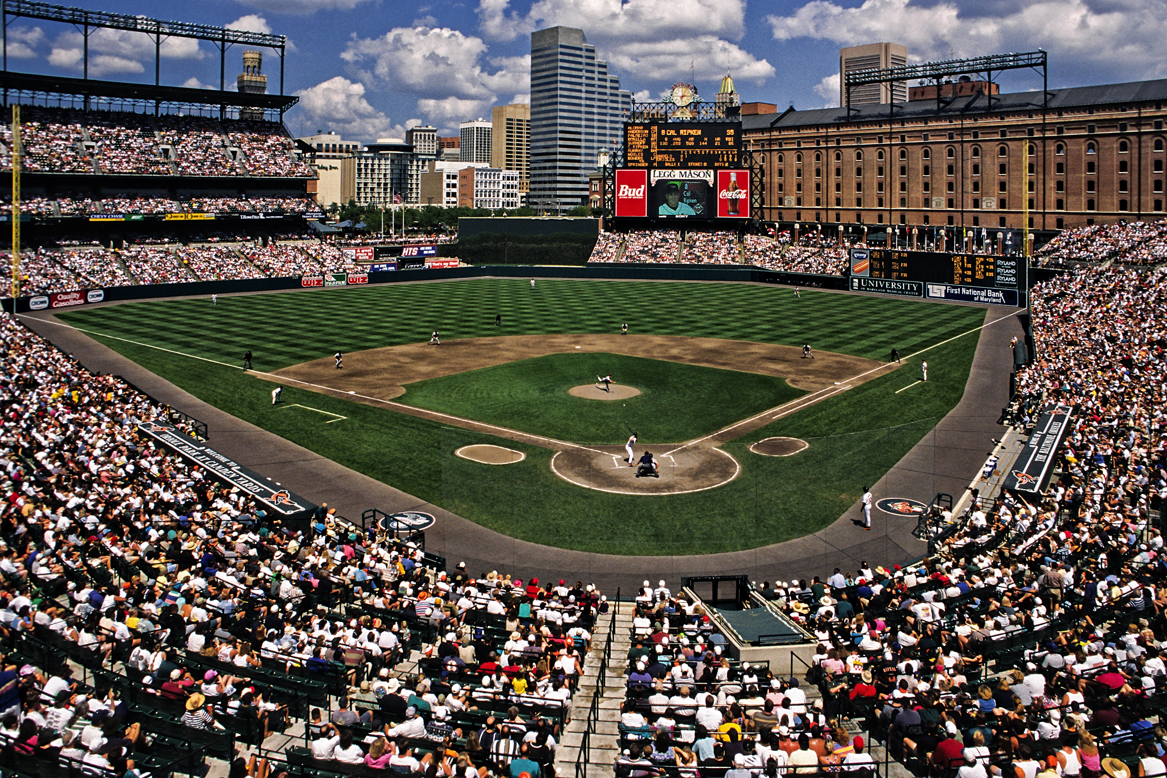 The California Angels meet the Baltimore Orioles in a game @ Camden Yards on August 25, 1996. This was Dennis Springer's first Major League shutout. The batter is Cal Ripkin, Jr. as Eddie Murray waits on deck. Both Ripkin and Murray are Hall-Of-Famers. Check out the box score @ I posted an earlier version of this picture. This version was scanned from the original slide then processed through Photoshop.